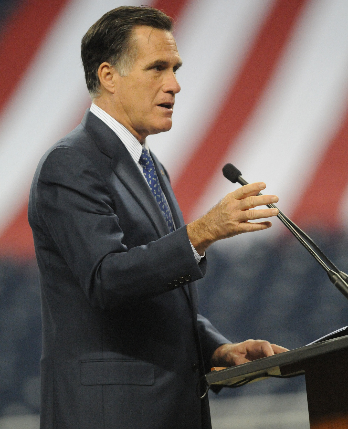 Mitt Romney speaks in Detroit.